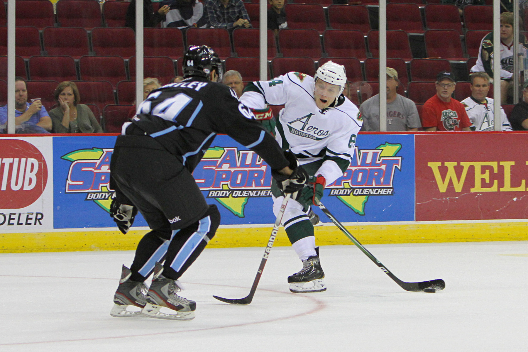 Victor Bartley (Milwaukee) vs. Mikael Granlund (Houston Aeros) American Hockey League (AHL). Photographs of the American Hockey League, 10/19/12-10/25/12